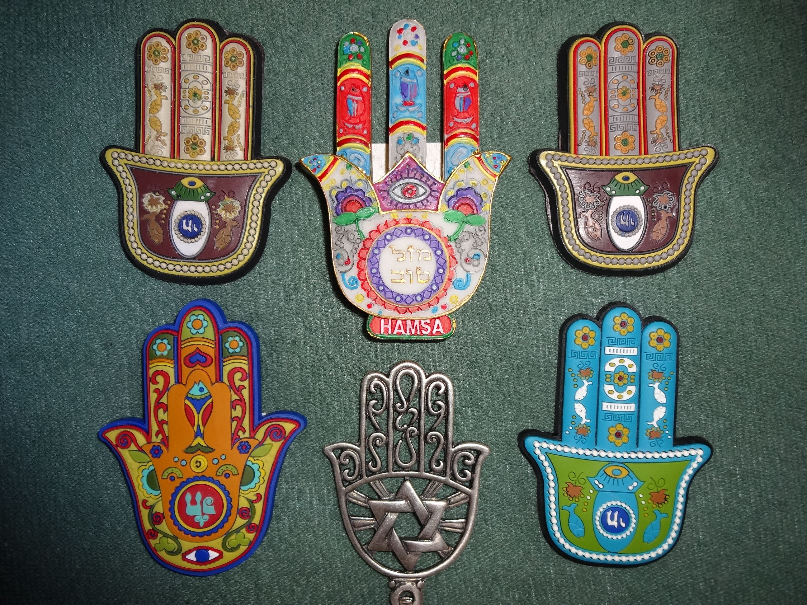 Collection of khamsa bought in Israel in May 2012